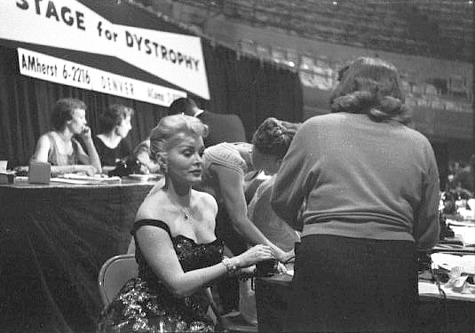 Zsa Zsa Gabor, helping out at the Denver Muscular Dystrophy Television Marathon, 1955.